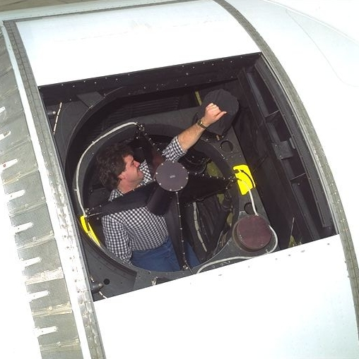 C-141 KAO (NASA-714) on ramp (Close-up of the telescope - with ground crew technician)